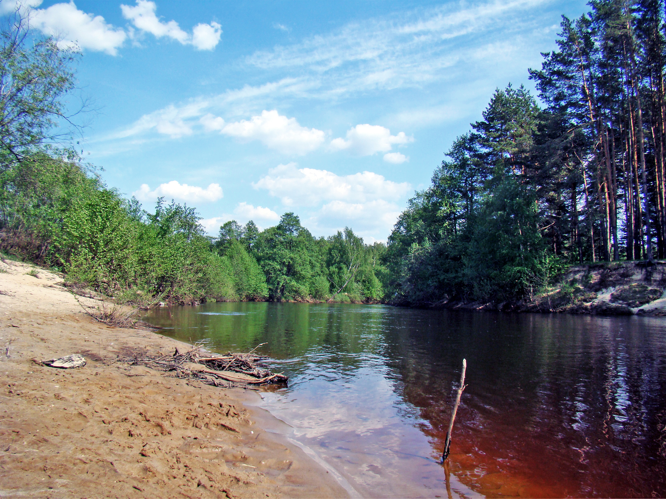 Linda is a river in Nizhny Novgorod Oblast, Russia